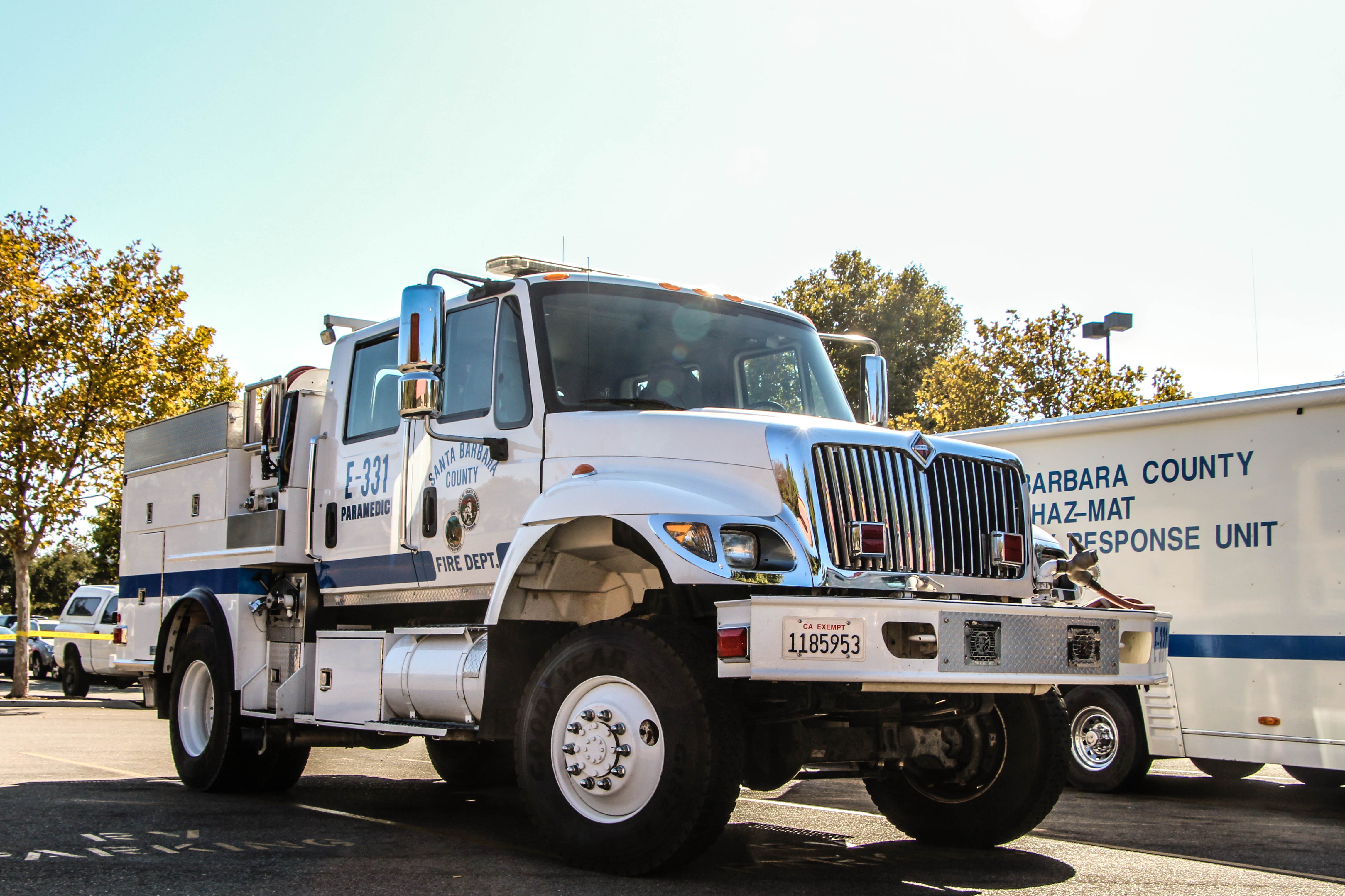 Engine 331 of the Santa Barbara County Fire Department